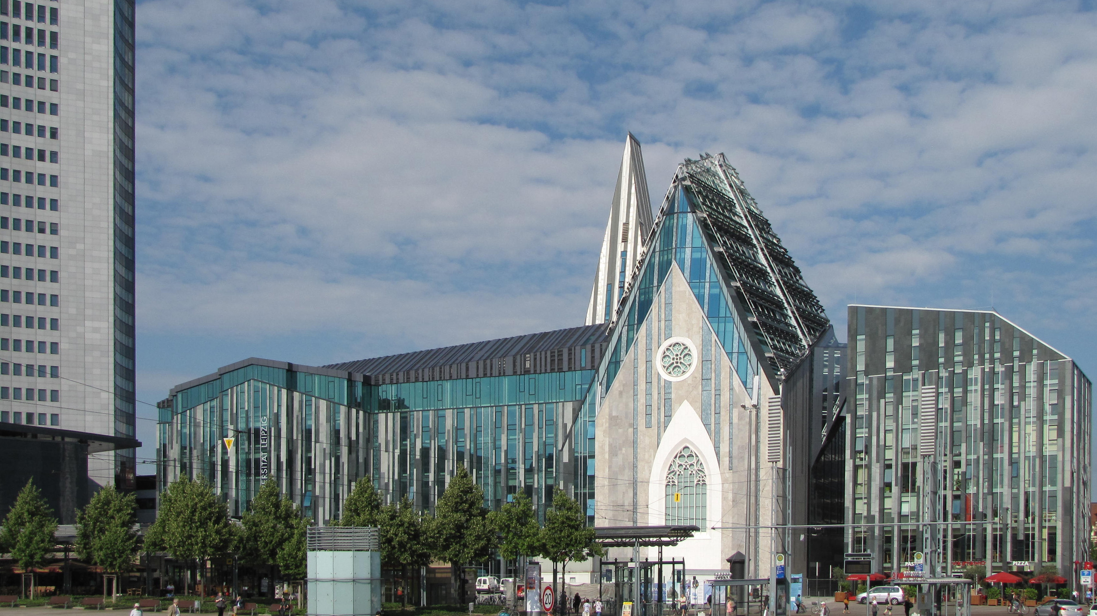 Paulinum – Aula und Universitätskirche St. Pauli and Augusteum (left) in July 2012